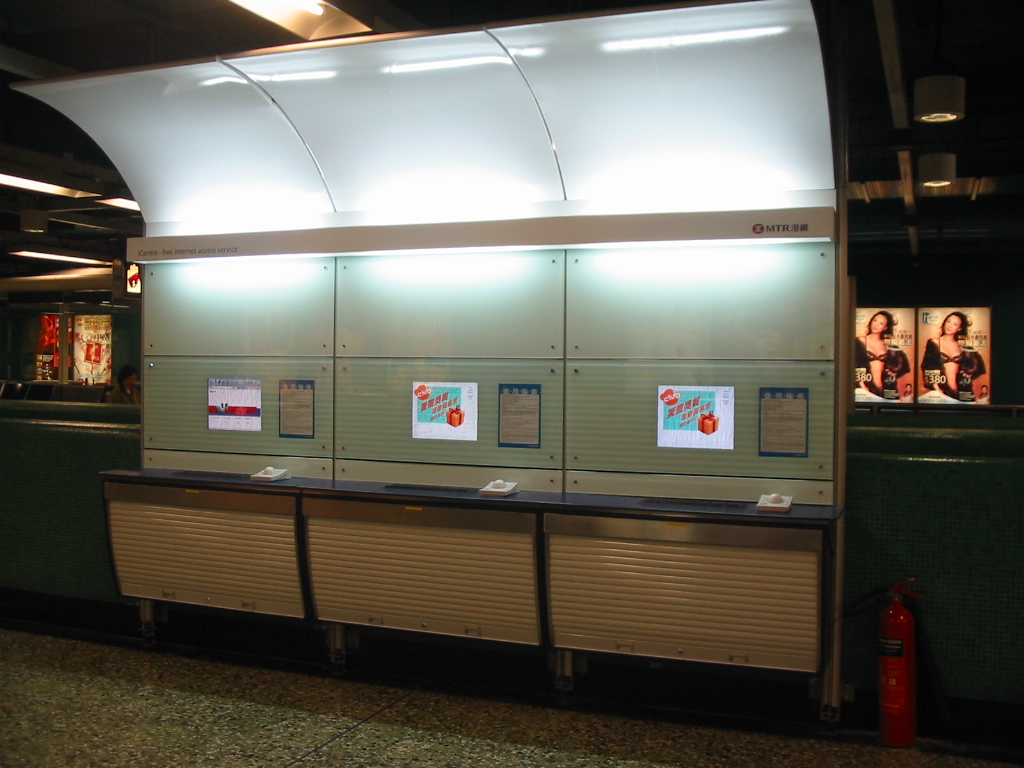 An Internet kiosk in paid area of MTR Sham Shui Po station